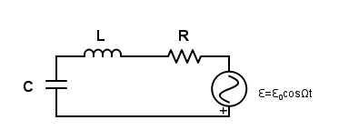 Circuit 3.